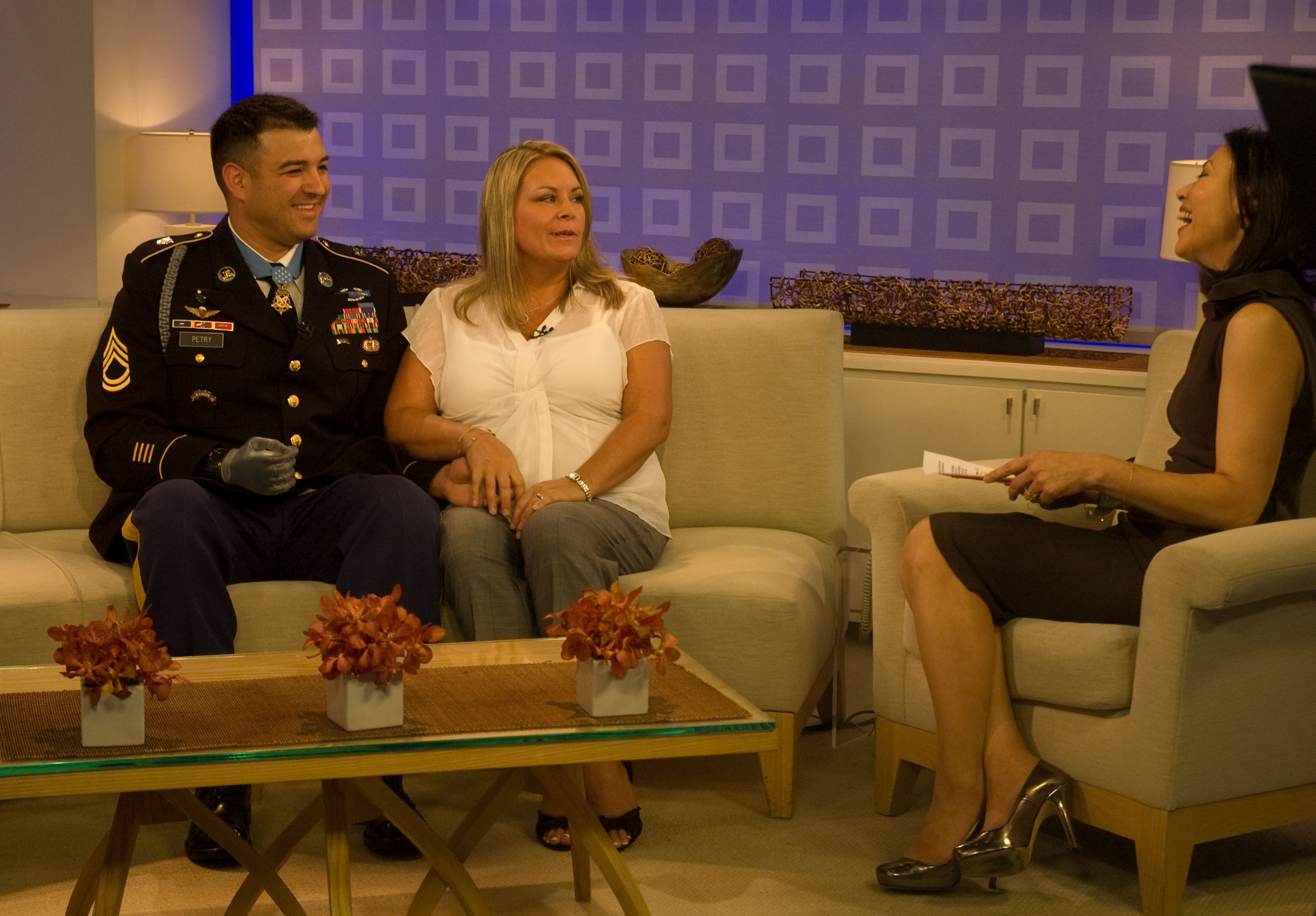 Sgt. 1st Class Leroy A. Petry, 75th Ranger Regiment Medal of Honor recipient, with wife Ashley, conduct an interview with NBC’s Today Show in New York City, July 15. Petry received the Medal of Honor for his actions during a mission on May 26, 2008, serving as a squad leader with Delta Company, 2nd Battalion, 75th Ranger Regiment while conducting a mission in rural eastern Afghanistan with his unit to capture a high-value insurgent target. Early in the mission, the squad came under heavy enemy fire and Petry was shot in both legs. Despite his wounds, the Ranger gallantly continued fighting alongside his brothers in arms. When an enemy hand grenade landed just inches away, Petry grabbed it to protect fellow Rangers. As he released the grenade to throw it, the explosive detonated and he lost his right hand. (Photo by Sgt. 1st Class Michael R. Noggle, USASOC Public Affairs)